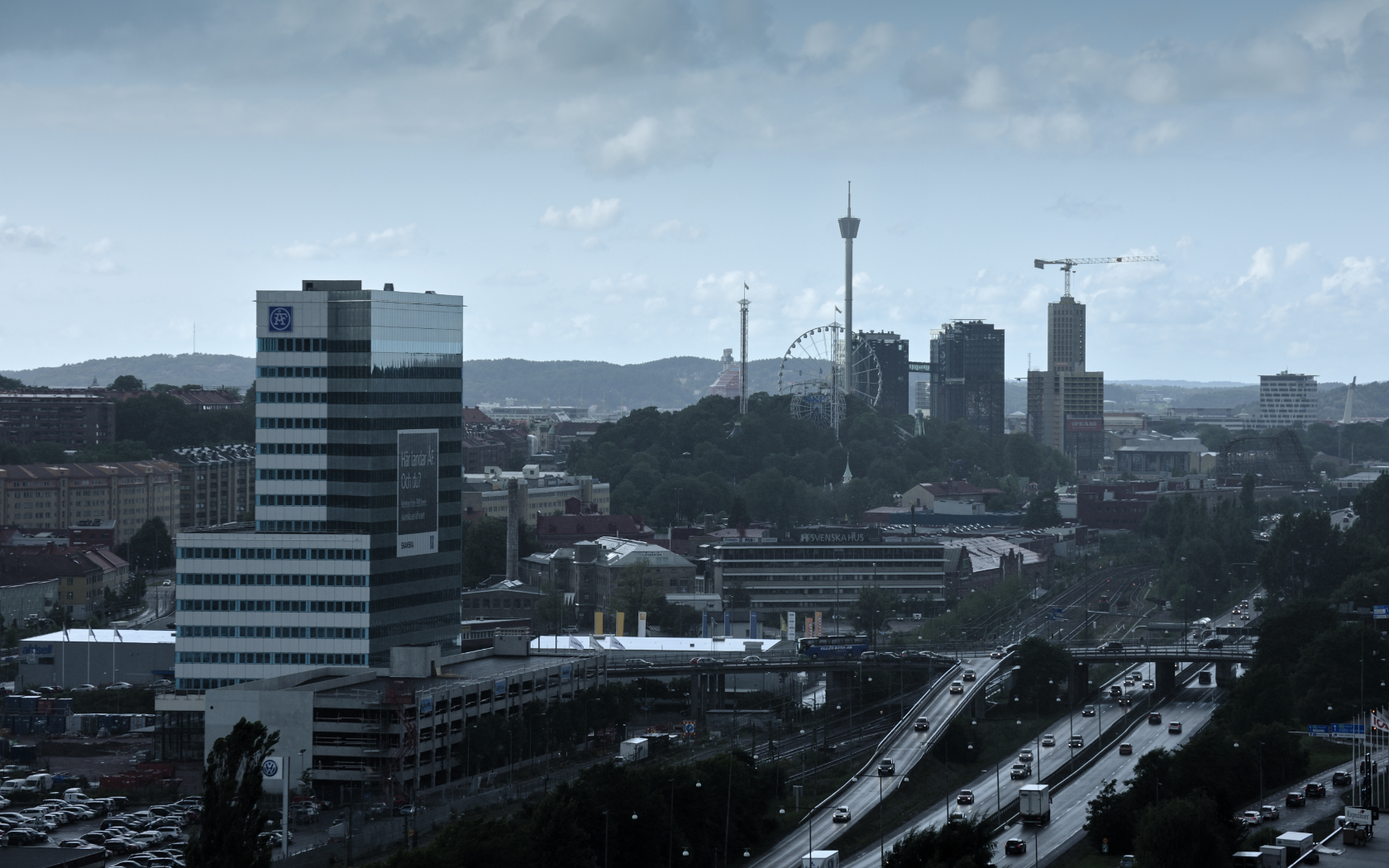 ÅF-house in Goteborg Gothia Towers and Liseberg in the background